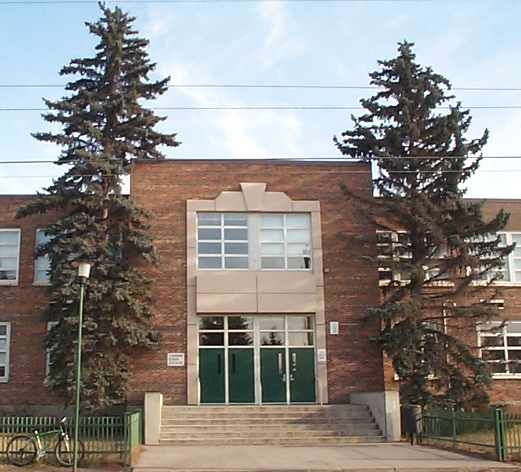 The Main Entrace of Queen Elizabeth Junior/Senior High School, located at 512 - 18 Street N.W., Calgary, Alberta, Canada.